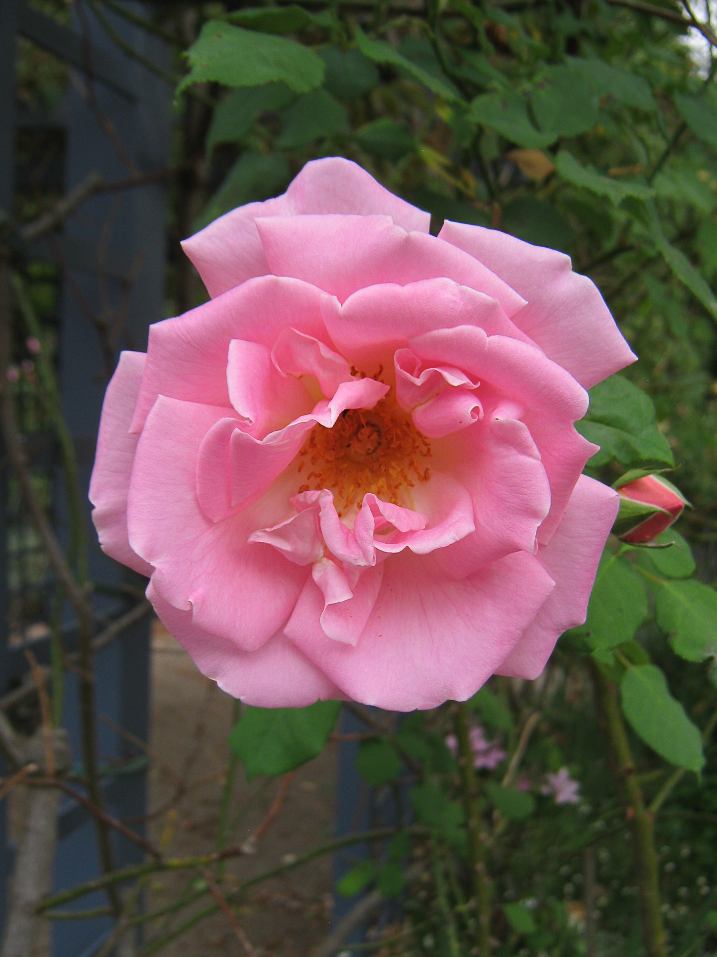 Rose 'Margaret Turnbull', Hybrid Tea climber by Alister Clark 1931; photographed in the Alister Clark Memorial Rose Garden, Bulla, Victoria